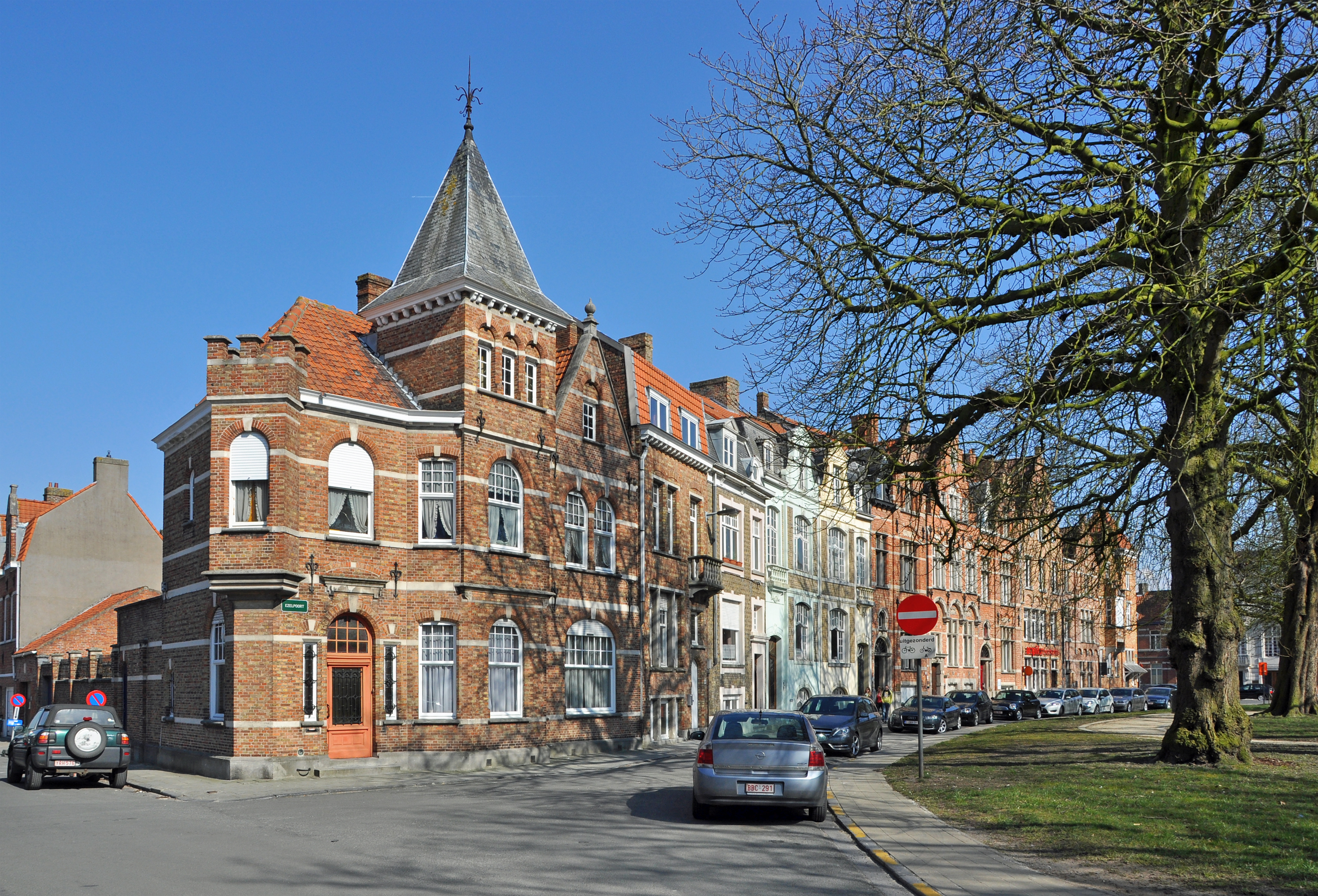 Bruges (Belgium): Ezelpoort (street)